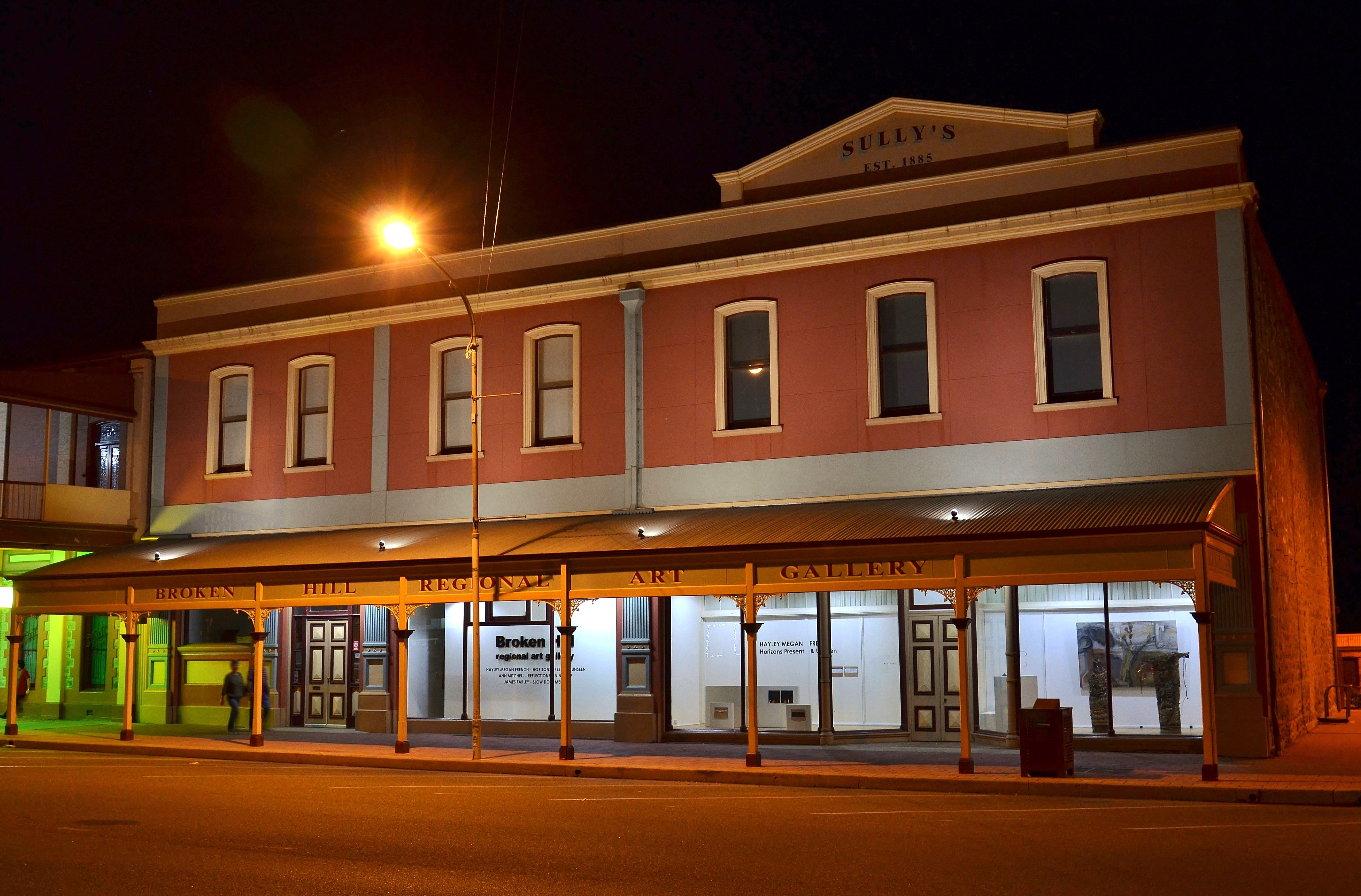 View of the Broken Hill Regional Art Gallery, which is located within the former Walter Sully Emporium, Argent Street, Broken Hill, New South Wales